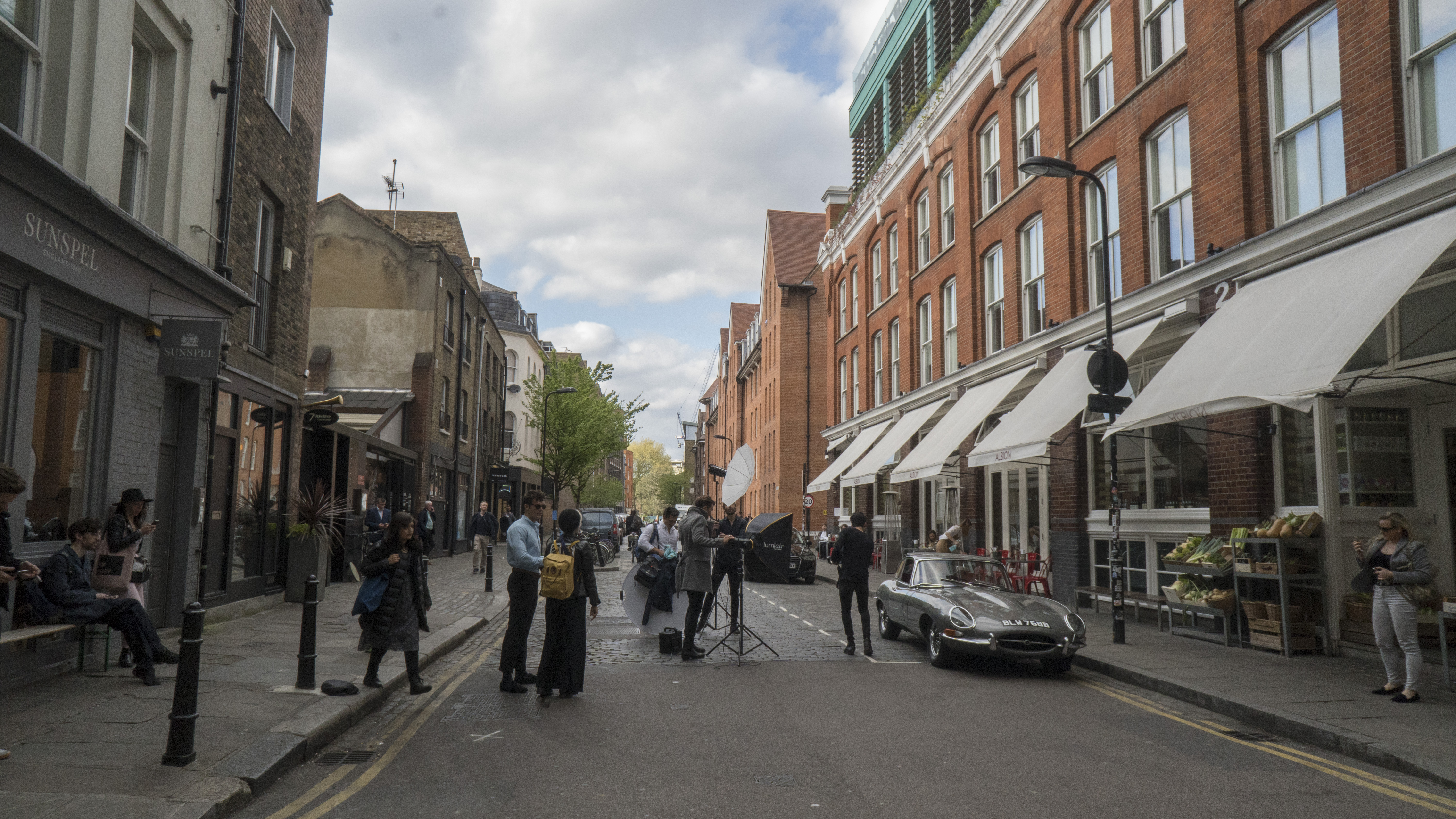 Shoreditch photoshoot, Boundary Street